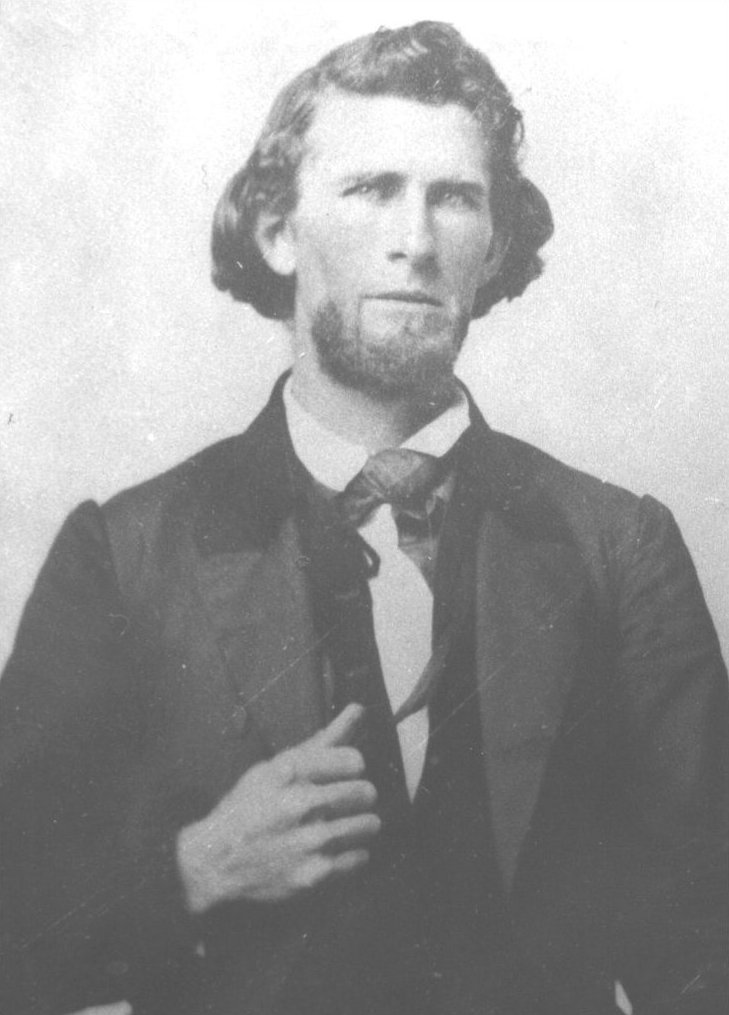 John Fletcher Crabtree, Crabtree Hot Springs, Mendocino National Forest, Lake County, California